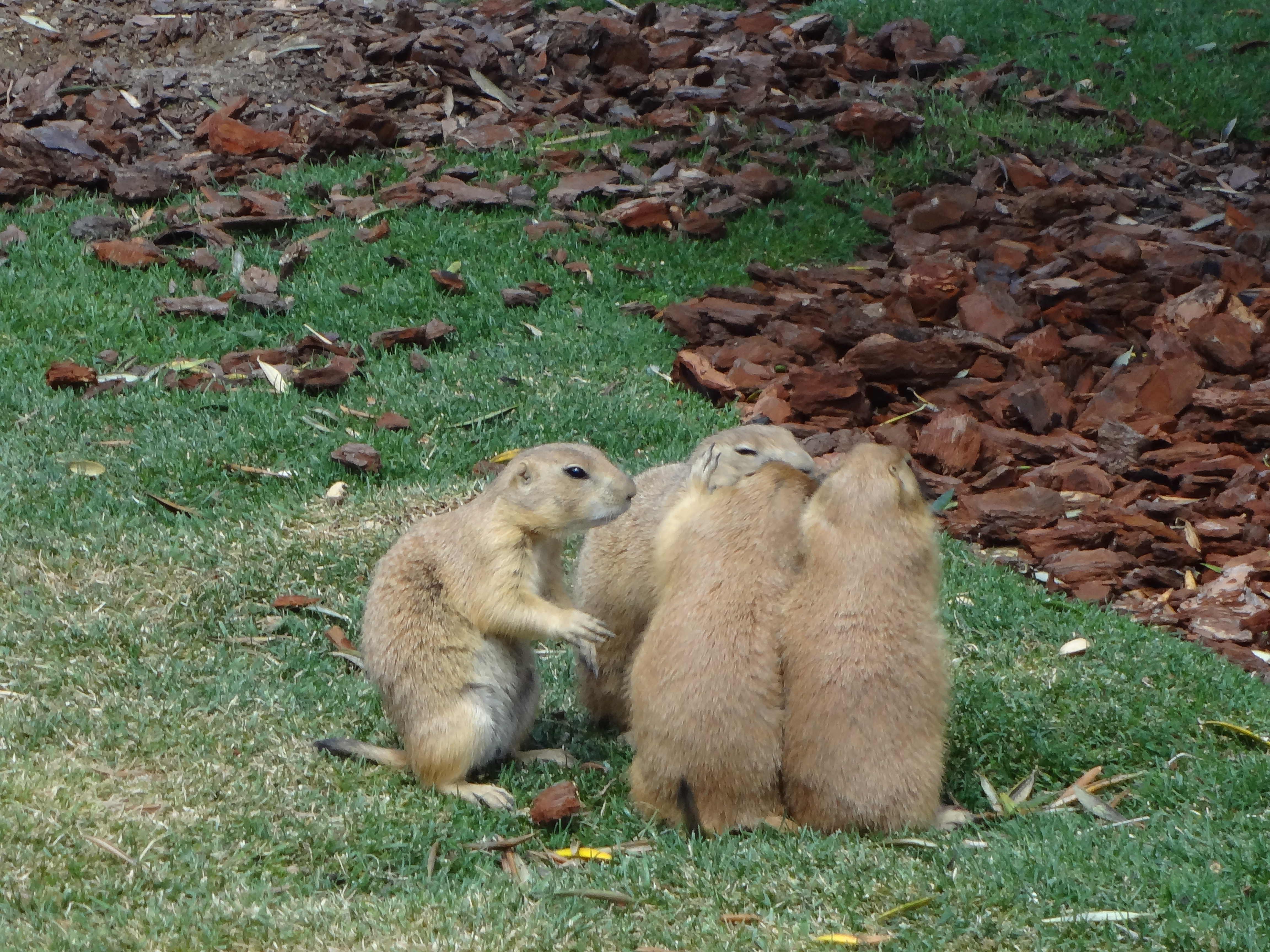 Faunia in Madrid, Spain